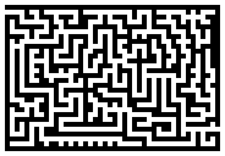 Maze with two possible ways through.